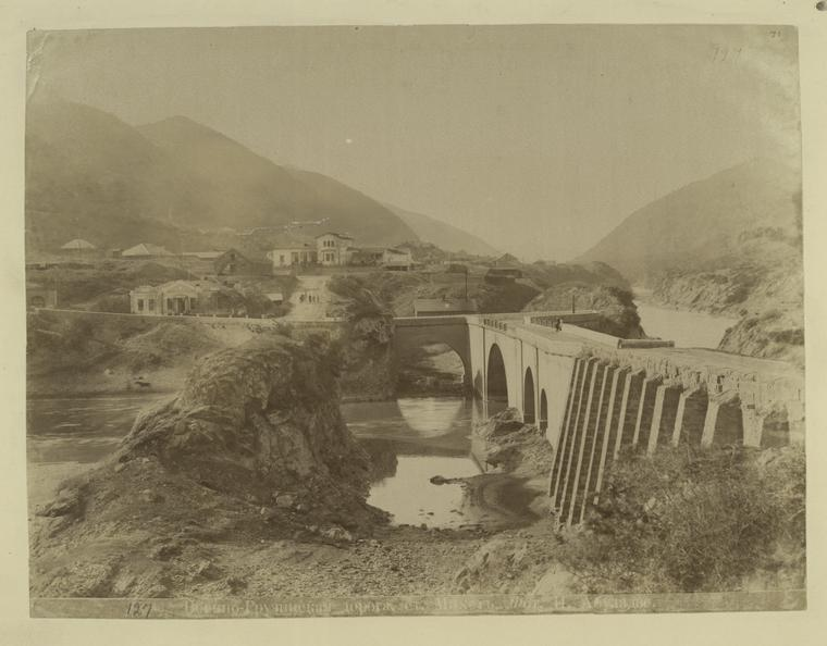 St. Mtskhet. Fot. I.Abuladze. Georgian Military Road; Station in Mtskheta.